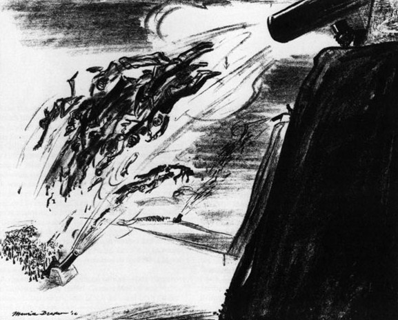 Ammunition by Maurice Becker. First published in The Masses, June 1914, pp.12-13